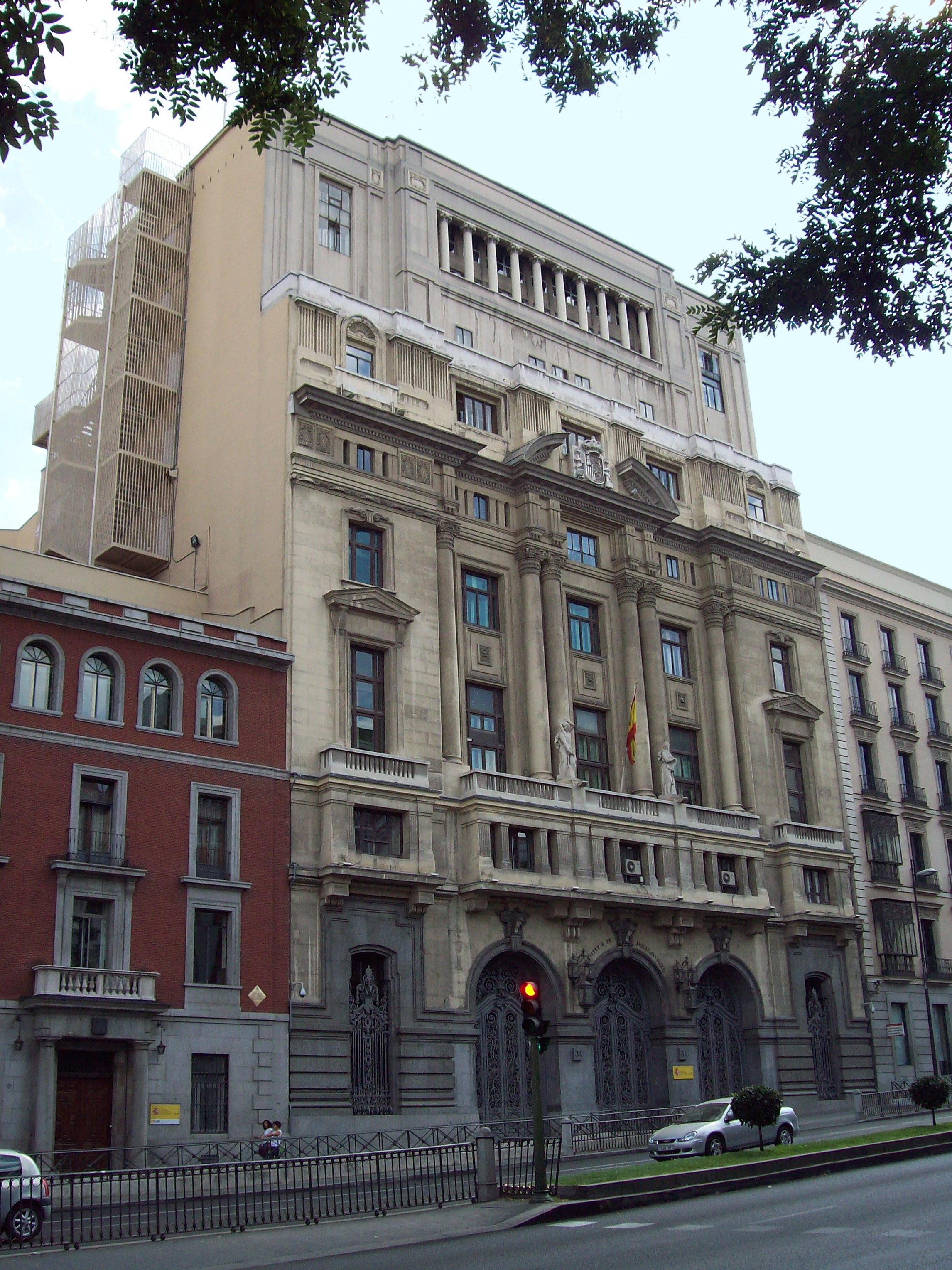 Spanish Ministry of Education headquarters, at 34 Calle de Alcalá (street) in Madrid. Building was projected in 1916 by Ricardo Velázquez Bosco and built from 1916 to 1923.